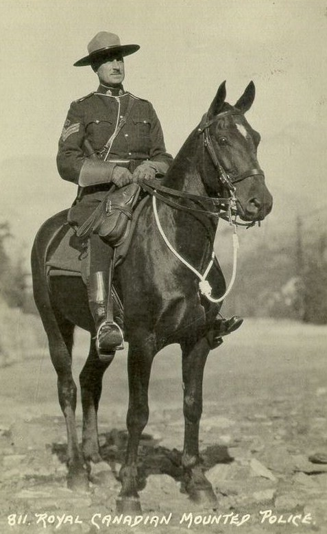 Postcard of a Royal Canadian Mounted Police officer on horseback. Postcard was postmarked in 1935.